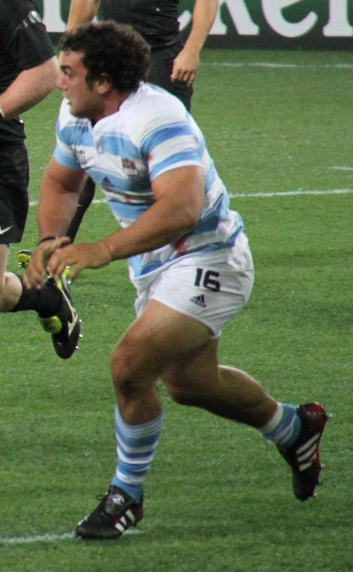 Argentinian rugby union player Agustín Creevy during 2011 Rugby World Cup match against England.